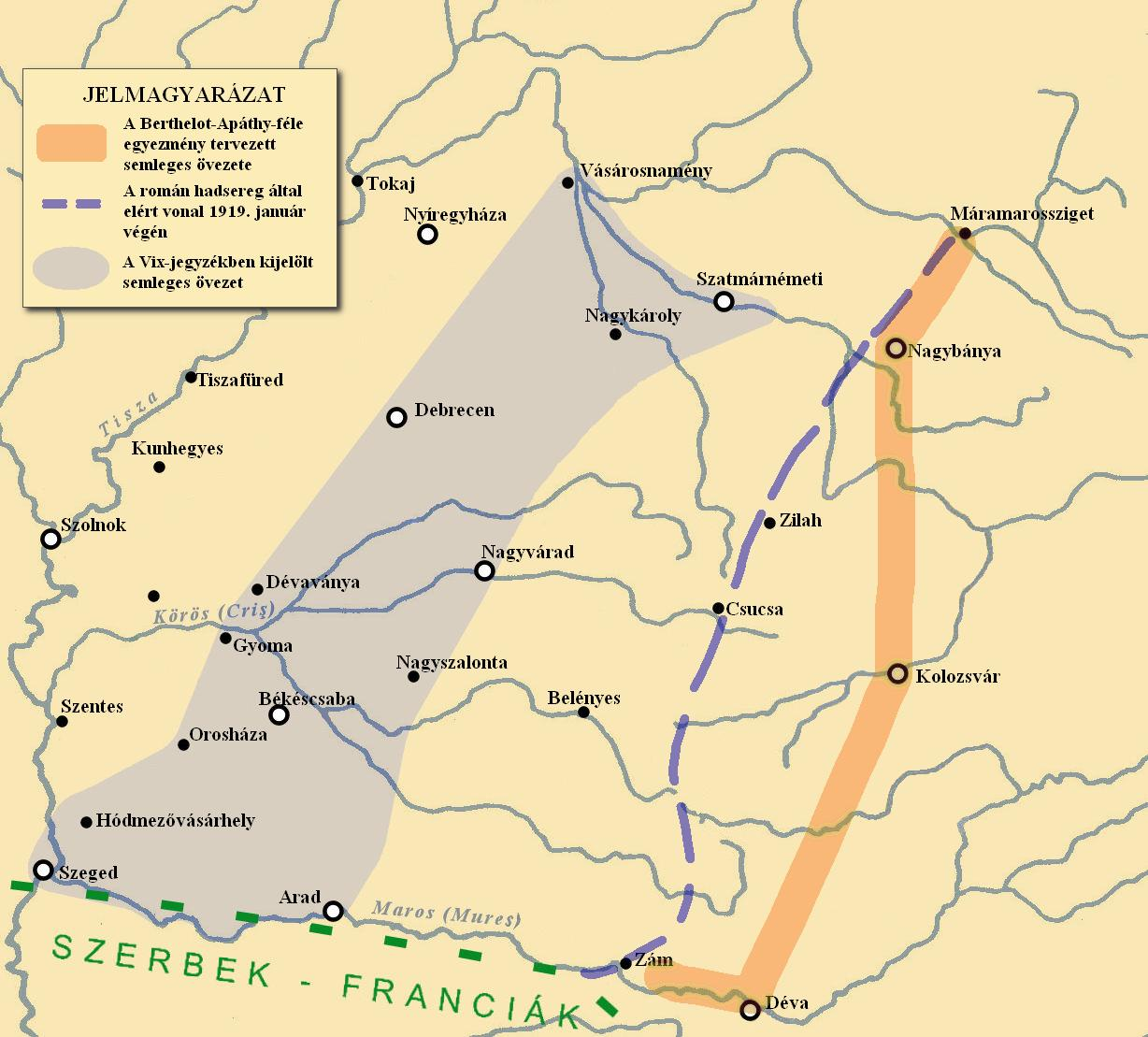 Vix Note - Neutral zone proposed to Hungary on 20 March 1919 by Paris Peace Conference (derivative work)